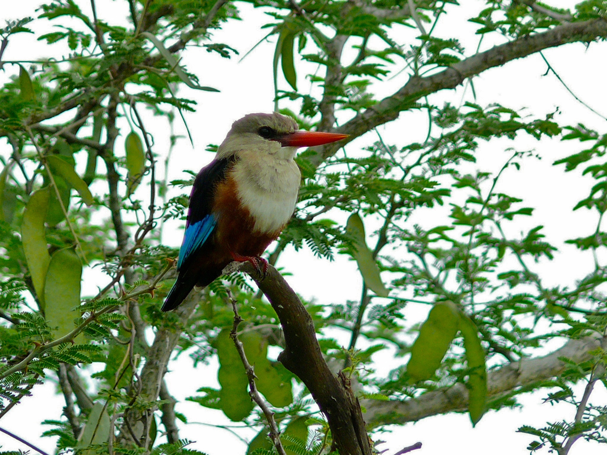 Murchison's Falls NP, UGANDA